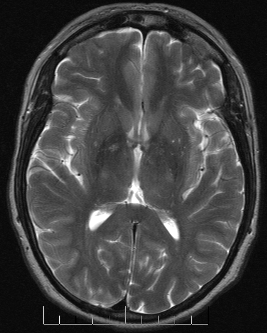 This is an anonymous clinical image provided by Aaron G. Filler, MD, PhD. The patient has signed a release for use of the anonymized image for educational, research, and teaching purposes. The image was converted from DICOM acquisition format into jpeg format, anonymized, and posted by Dr. Filler. It is intended for GDFL licensure for reuse for academic, scientific, educational uses without further permissions. Attribution to Aaron Filler, MD, PhD is requested.